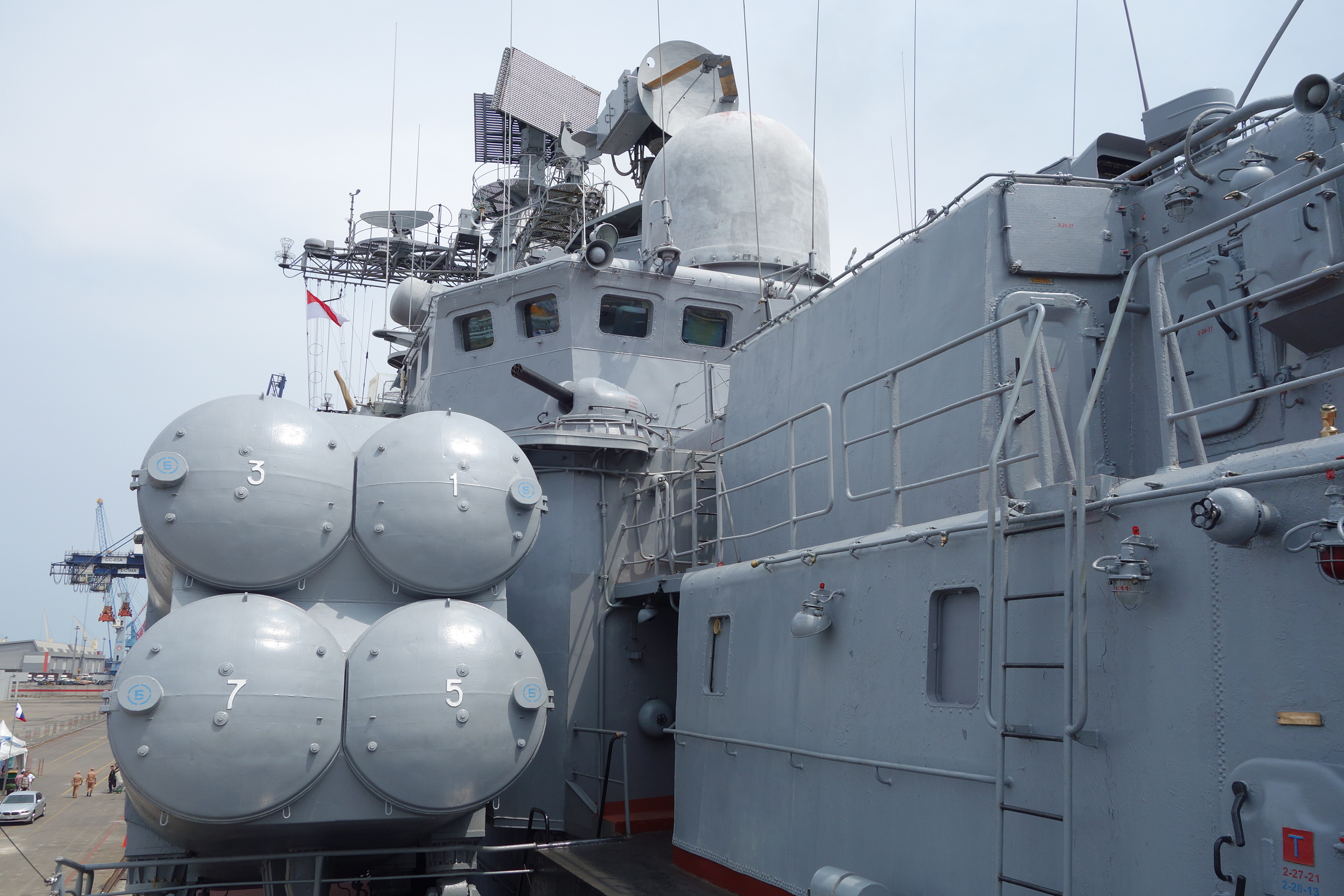 SS-N-22 Sunburn SSM launchers of the Russian Navy DDG Bystryy (December 2015, Jakarta)